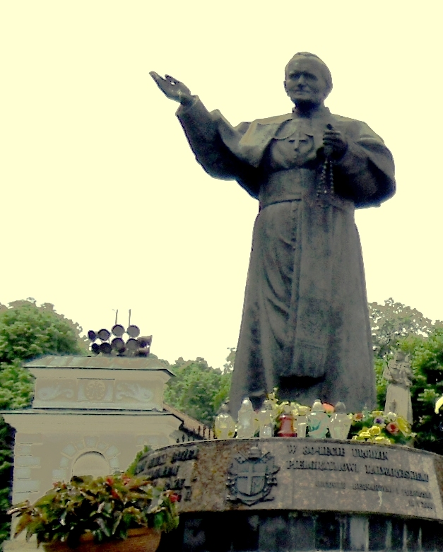 Statue of John Paul II in Kalwaria Zebrzydowska is standing on Paradise Square in front of the Basilica of Our Lady of the Angels.